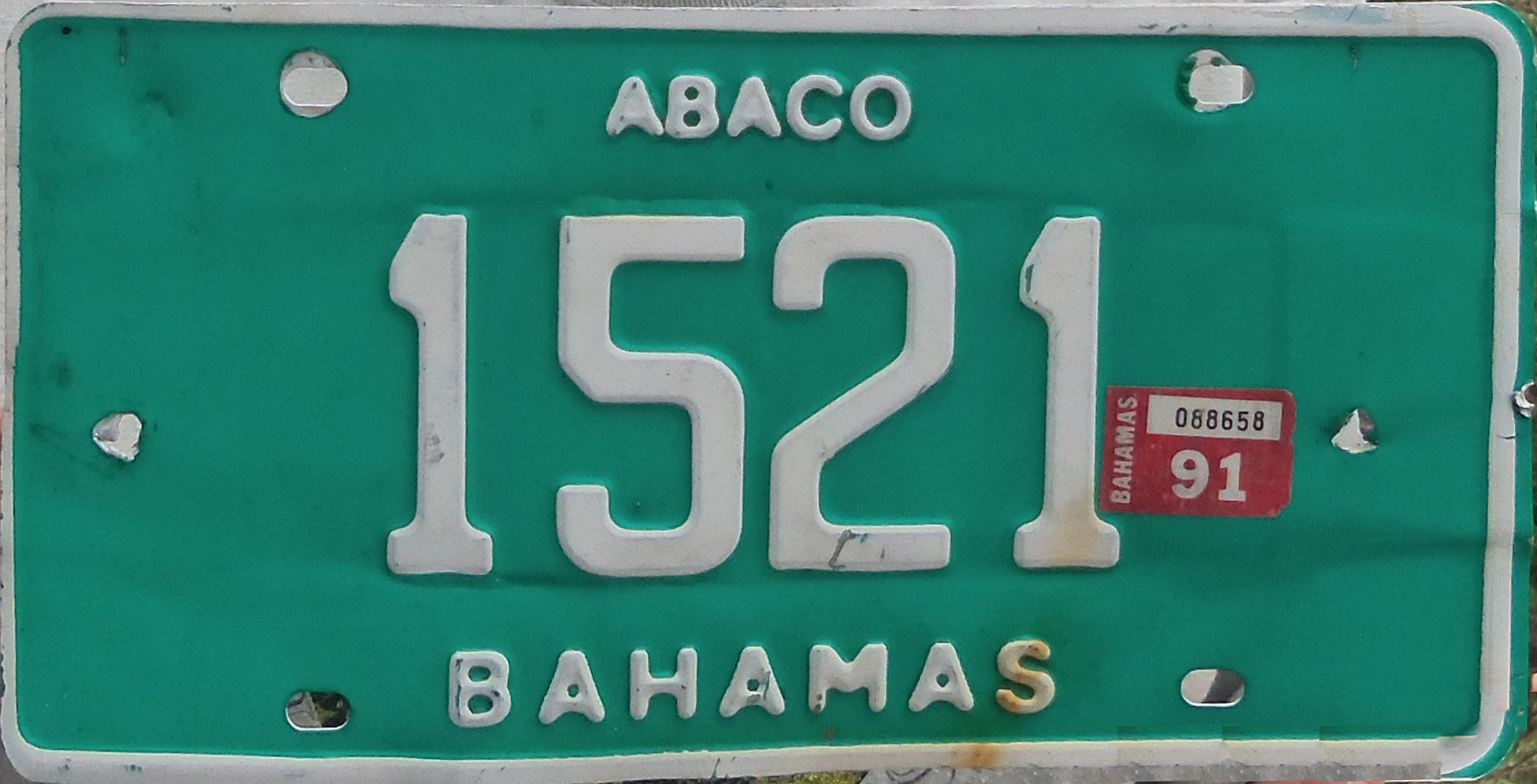 Allen on the porch